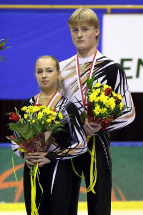 Ekaterina Sheremetieva & Mikhail Kuznetsov (RUS) on the podium at the 2007-2008 ISU Junior Grand Prix Final